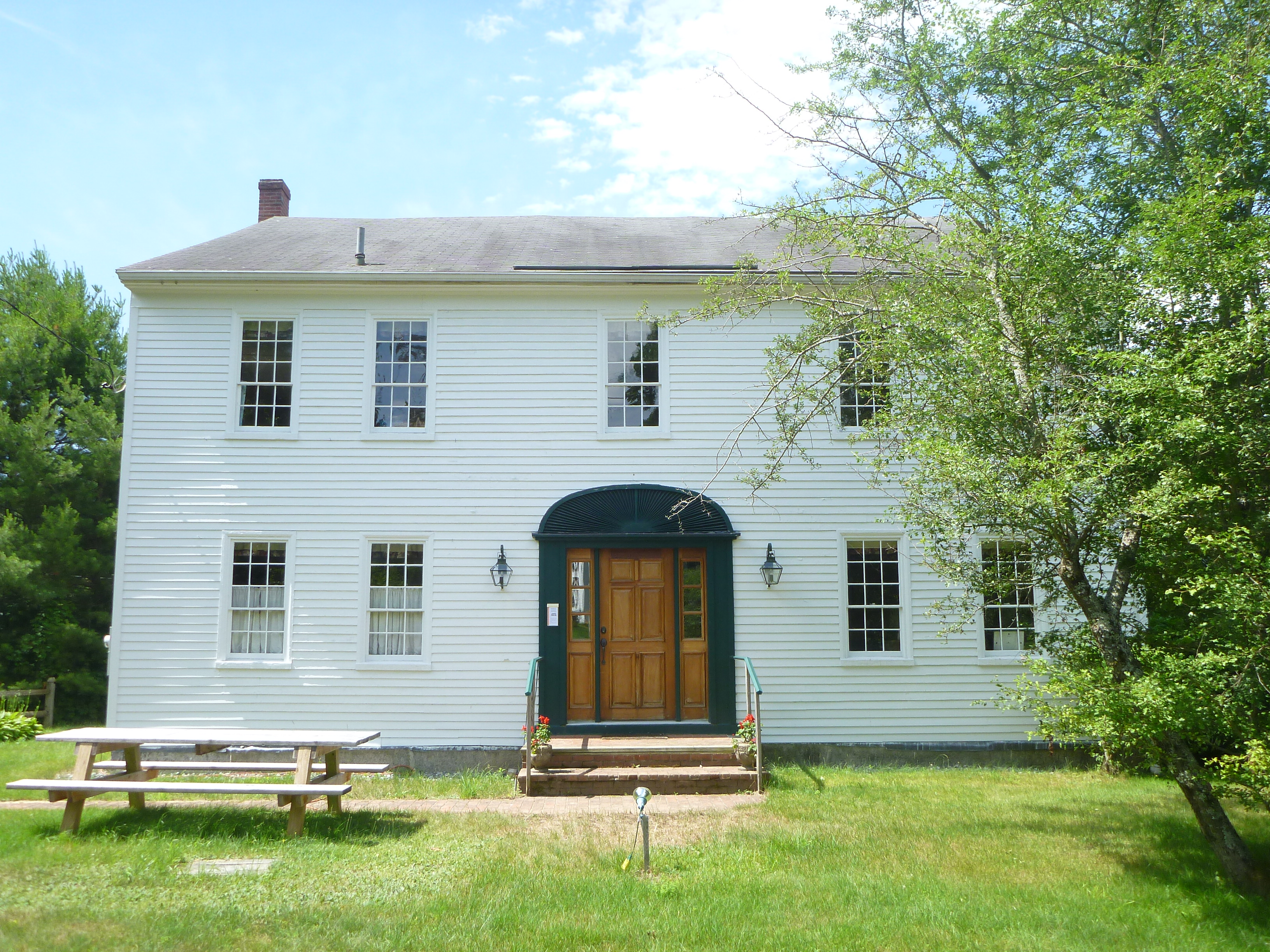 Building registered with the National Register of Historic Places ( on 12/2/1969 as "Hawthorne, Nathaniel, Boyhood Home", Item No. 69000030 NRIS (National Register Information System), Record No. 492344 (National Register of Historic Places). Maintained by the Hawthorne Community Association